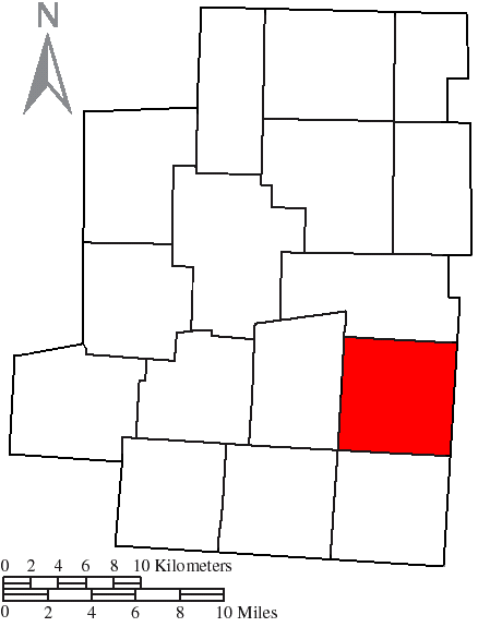 Originally created by the US Census. Modified by myself to highlight the township.